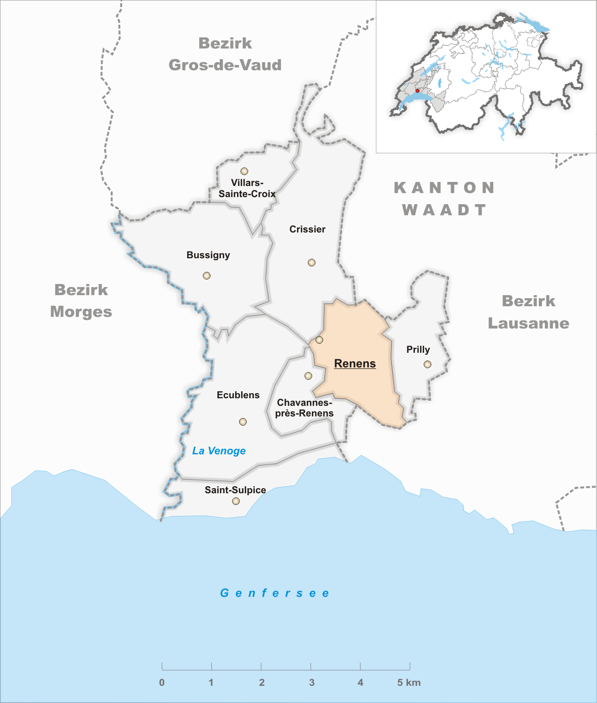 Municipality Renens Artist: Tschubby